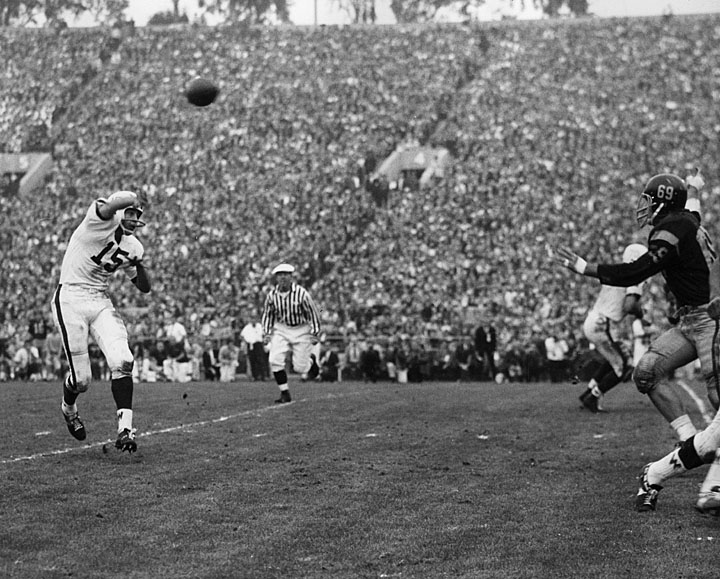 1963 Rose Bowl game action with Wisconsin's Ron Vander Kelen passing ball. Photograph by Carl Stapel